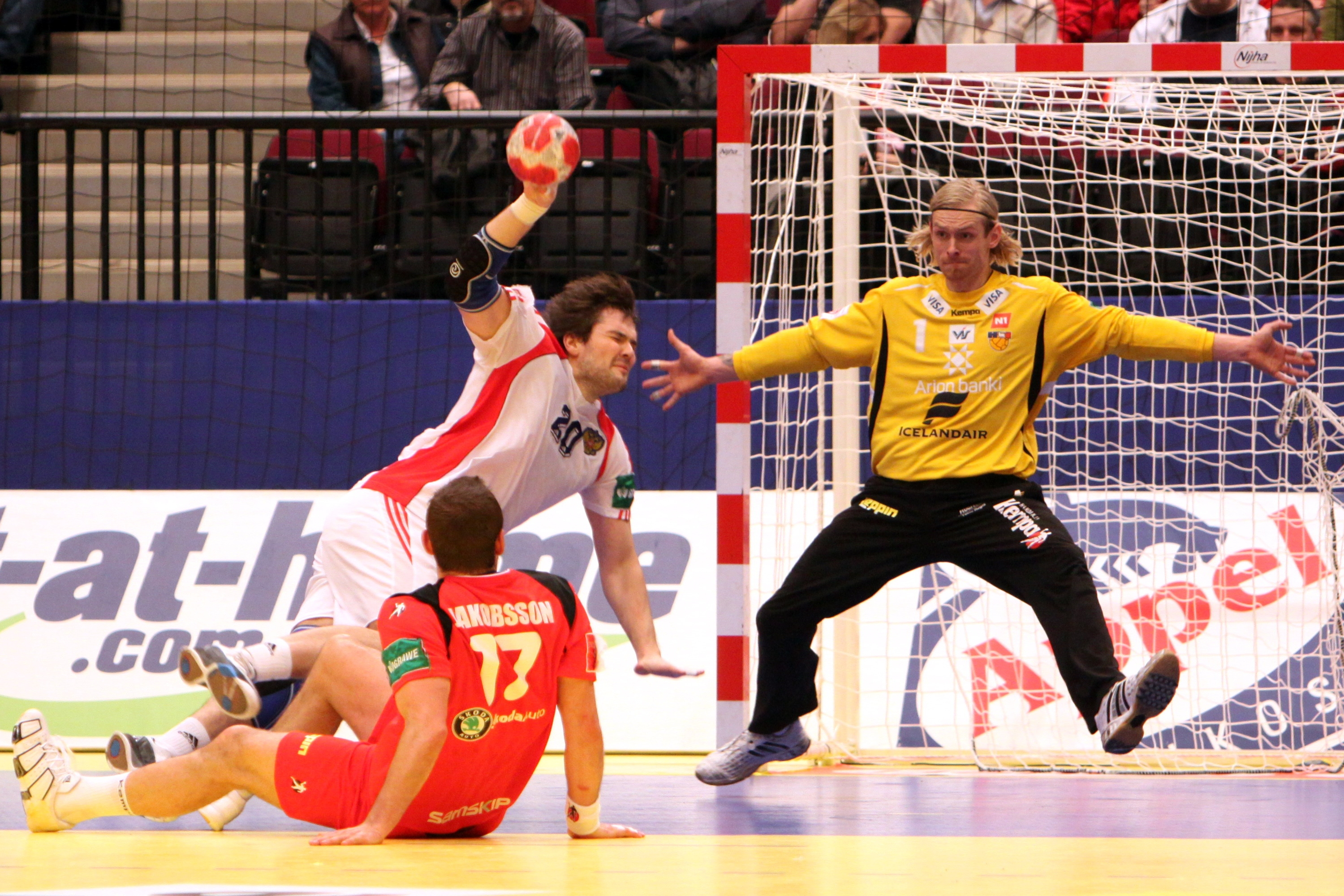 2010 European Men's Handball Championship Group I: Russia vs Iceland 30:38 — Mikhail Chipurin (Russia national handball team) could not stopped by Sverre Andreas Jakobsson and scores against goalkeeper Björgvin Páll Gústavsson (Iceland national handball team)